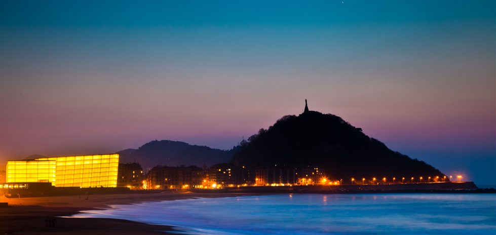 Zurriola Beach Photo and the bottom Kursall